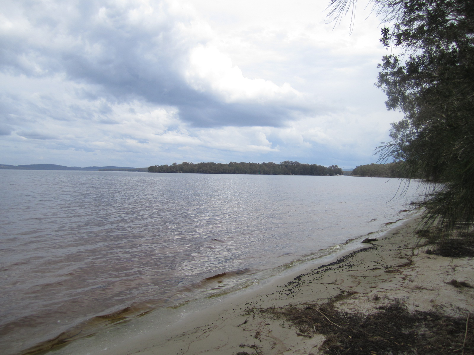 the lake